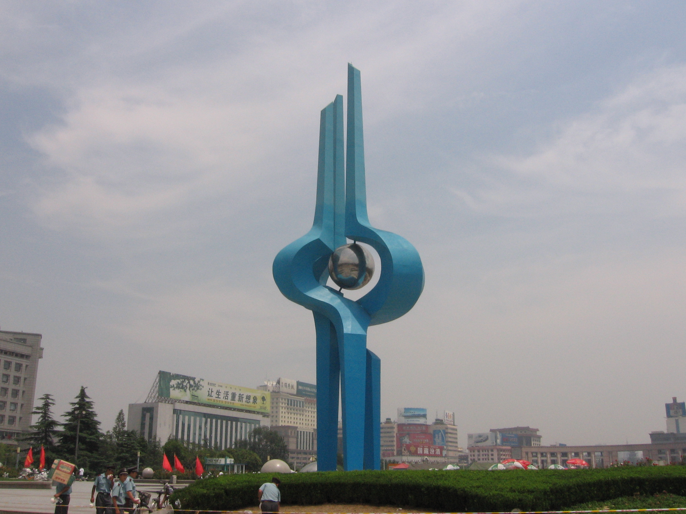 Quancheng (Spring City) Square in Jinan, Shandong, China.